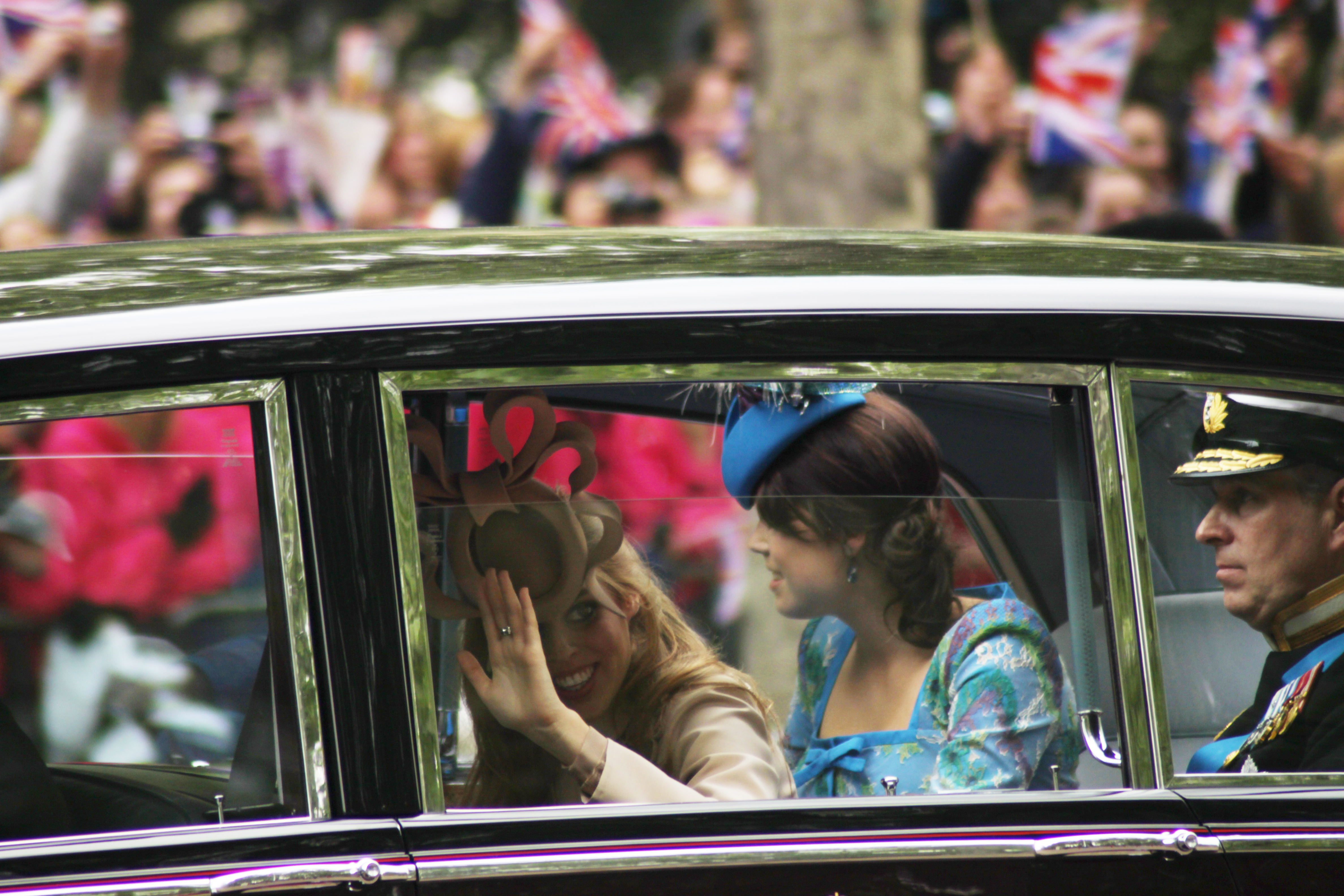 Princess' Beatrice and Eugenie on the way to William's wedding